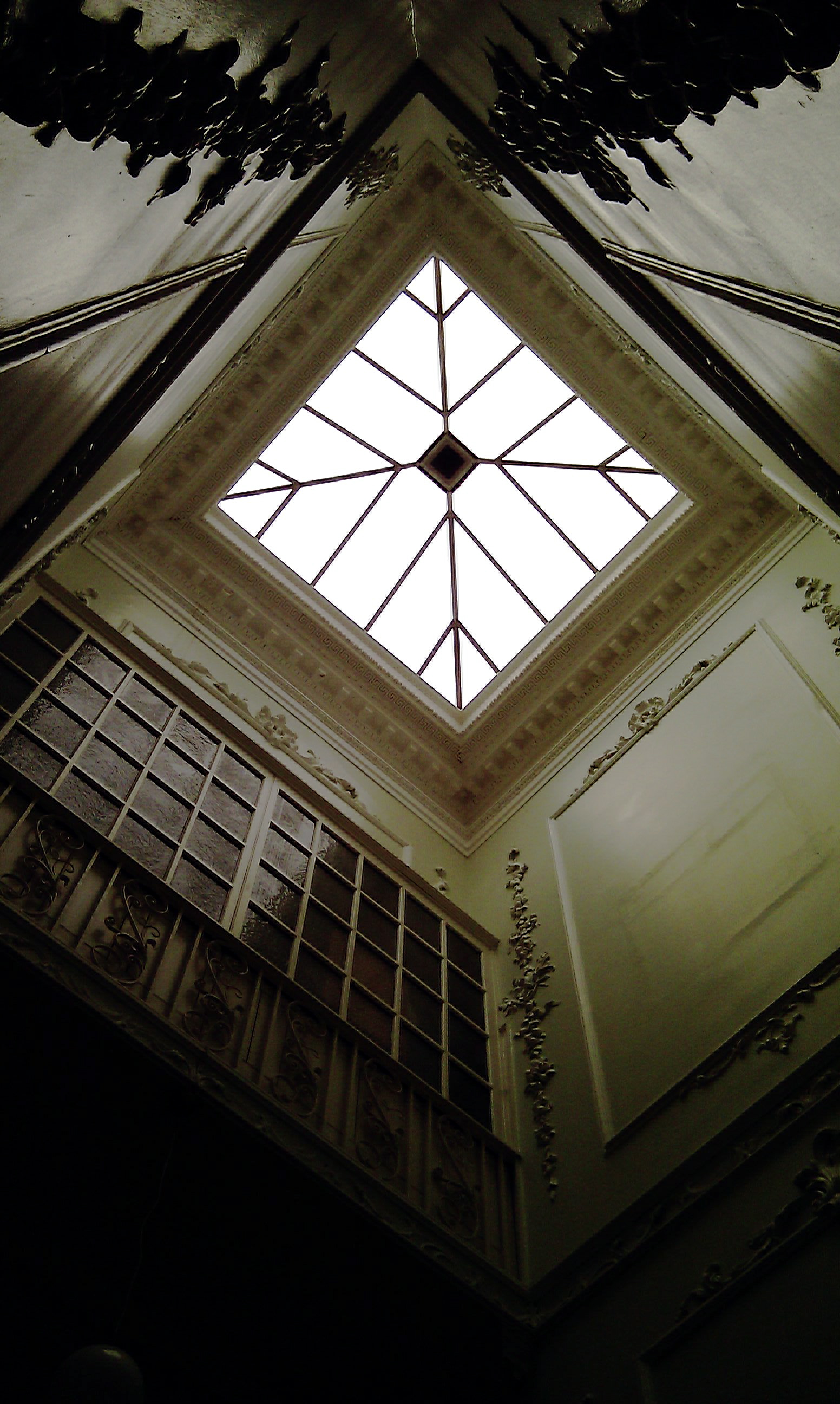 Georgian Stairs, Queen's College, London